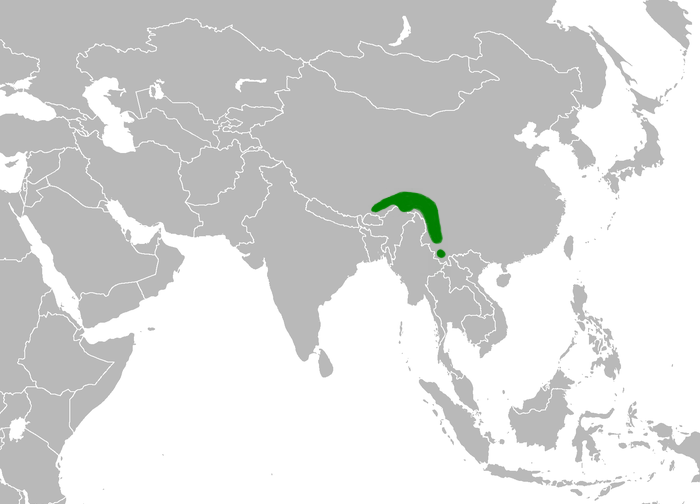 Lord Derby's parakeet range, with national borders added